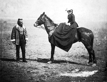 Photograph taken in the Crimea in 1855 by Roger Fenton